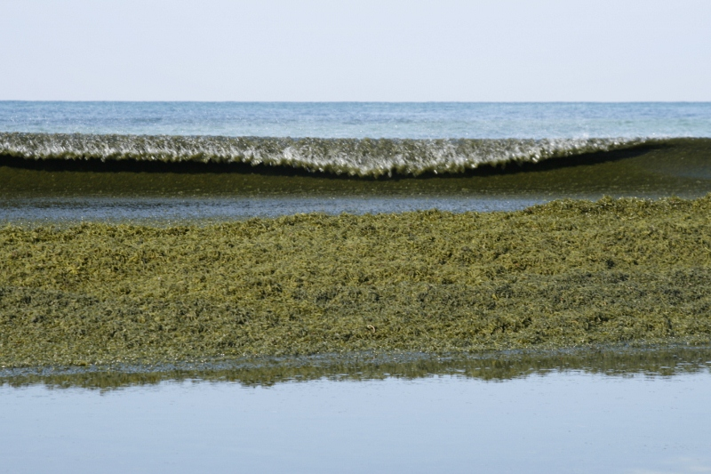 ALGAE HAIFA, Geography of Israel